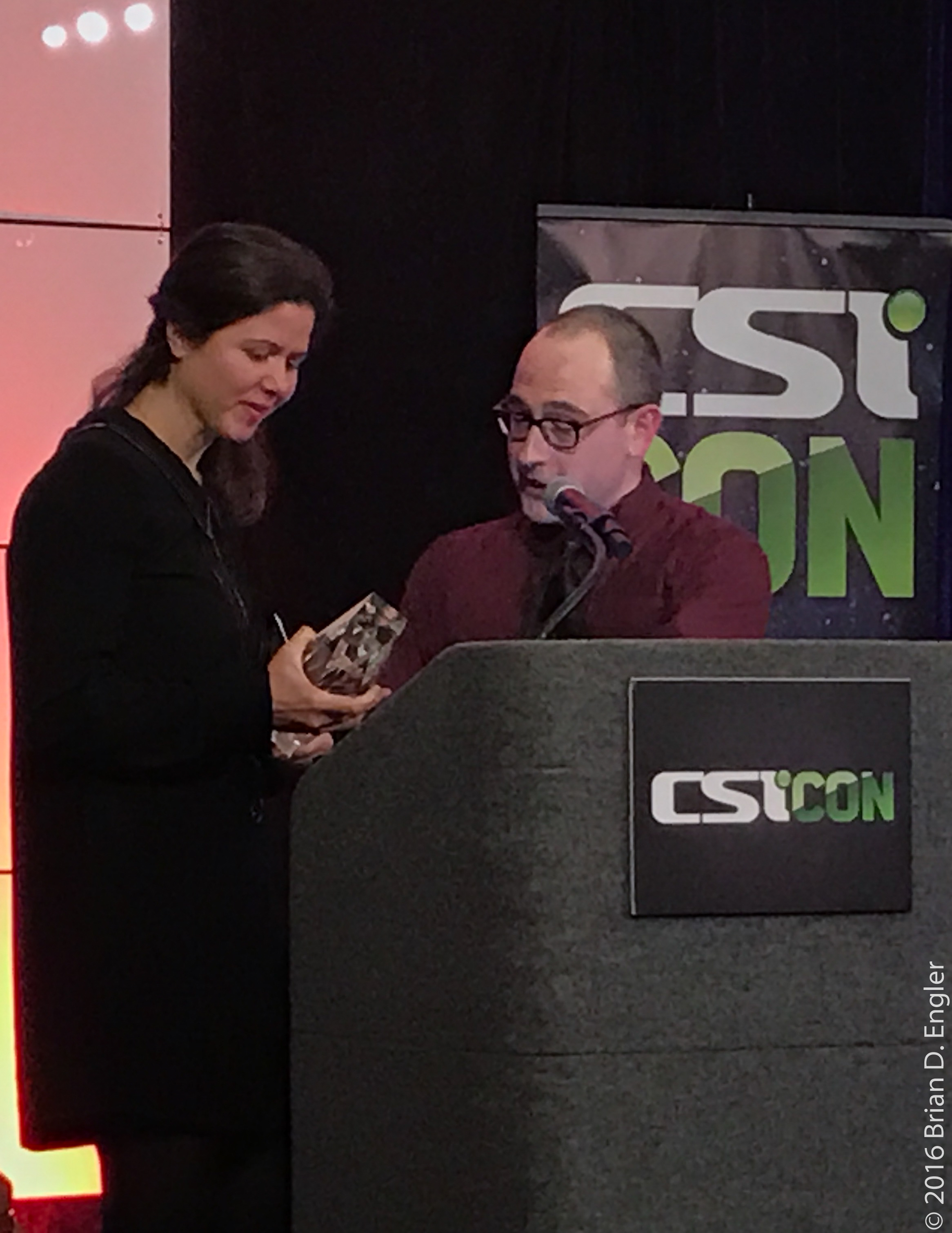 Journalist Julia Belluz receives Committee for Skeptical Inquiry (CSI) Balles Award for 2016 from Paul Fidalgo, Center for Inquiry (CFI) Communications Director at CSICon Las Vegas, October 28, 2016.